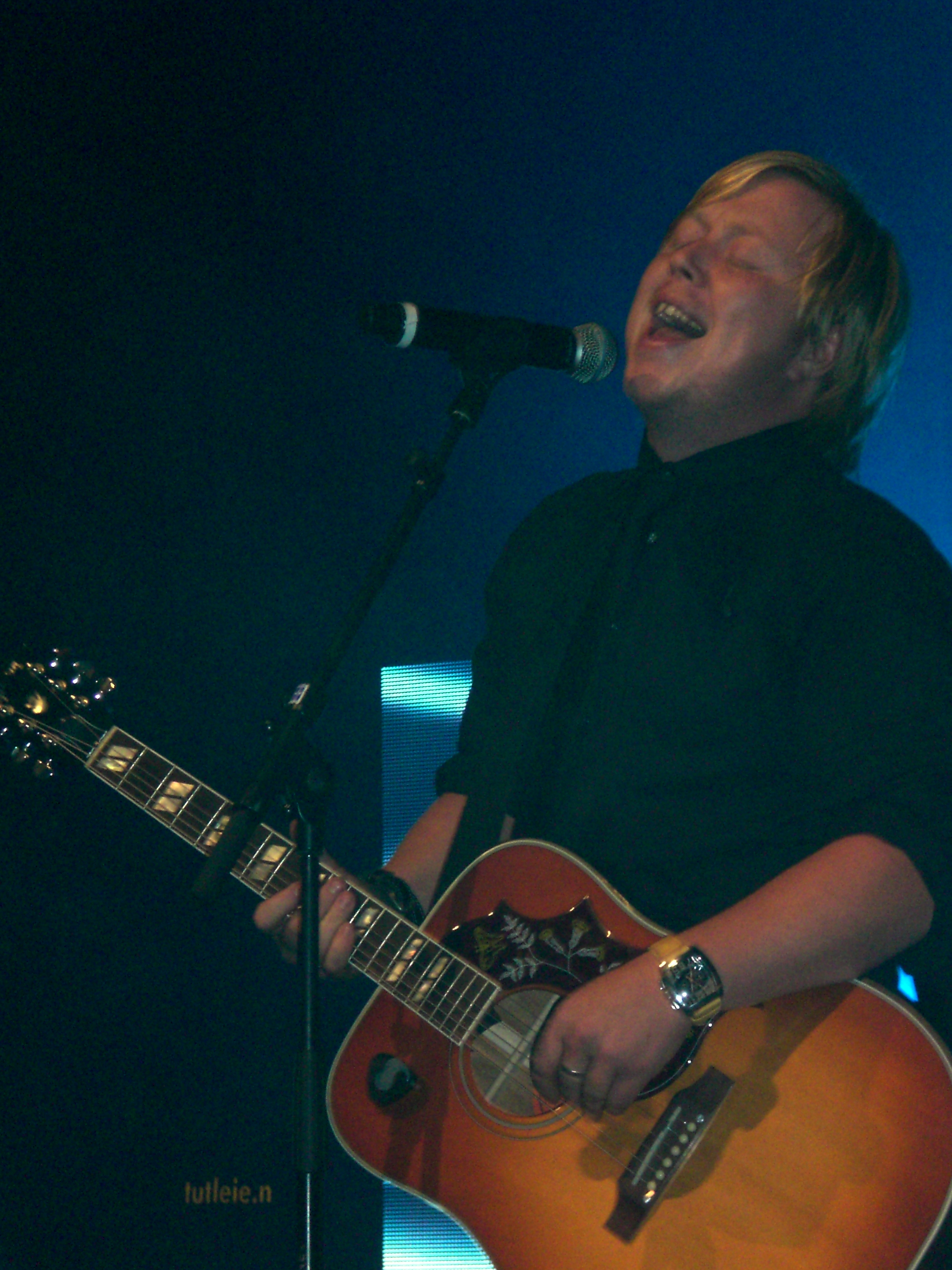 Kurt Nilsen performing at Tusenfryd, Norway. August 22. 2007.